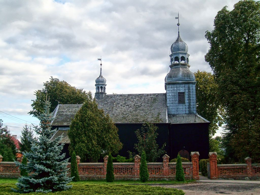 The church in Ślesin, Poland.